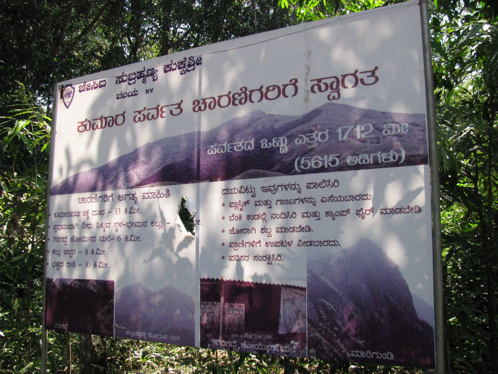 Detailed description of Kumara Parvata for Trekkers.